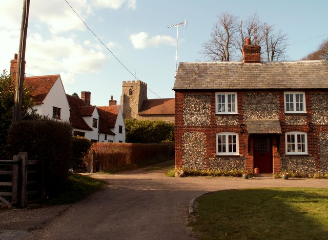 Great Sampford, Essex. In this village view of Great Sampford, you can see the parish church of St. Michael, which dates from the 13th century. The house on the left is a fine timber-framed building.